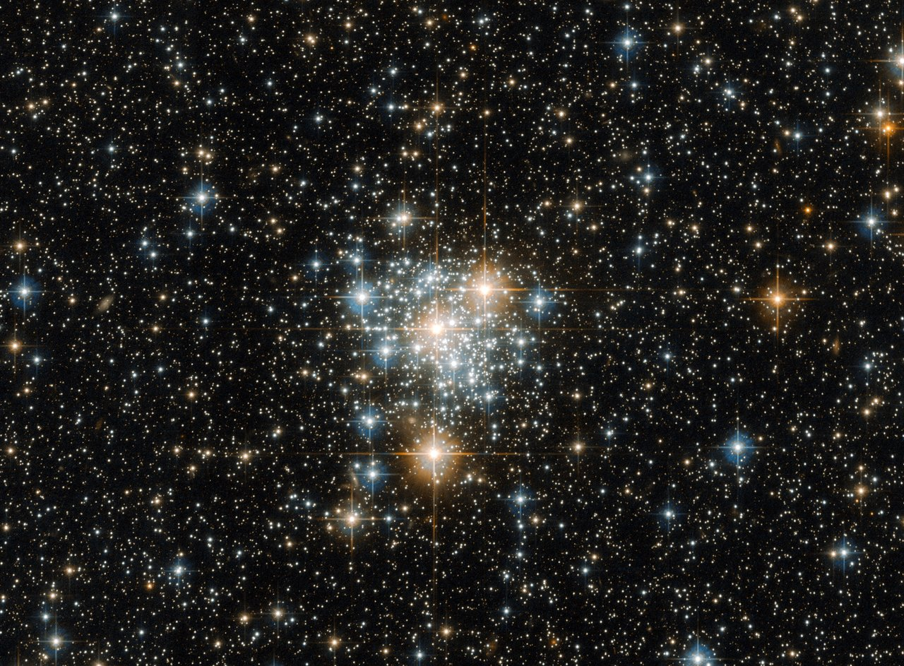 It may be famous for hosting spectacular sights such as the Tucana Dwarf Galaxy and 47 Tucanae (heic1510), the second brightest globular cluster in the night sky, but the southern constellation of Tucana (The Toucan) also possesses a variety of unsung cosmic beauties. One such beauty is NGC 299, an open star cluster located within the Small Magellanic Cloud just under 200 000 light-years away. Open clusters such as this are collections of stars weakly bound by the shackles of gravity, all of which formed from the same massive molecular cloud of gas and dust. Because of this, all the stars have the same age and composition, but vary in their mass because they formed at different positions within the cloud. This unique property not only ensures a spectacular sight when viewed through a sophisticated instrument attached to a telescope such as Hubble’s Advanced Camera for Surveys, but gives astronomers a cosmic laboratory in which to study the formation and evolution of stars — a process that is thought to depend strongly on a star’s mass.